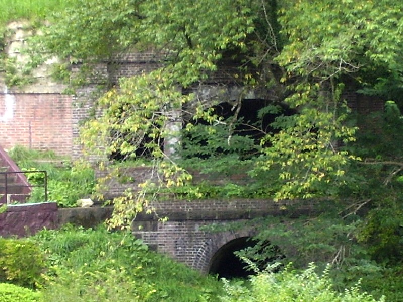 Ruin of an aqueduct tunnel at Sankyozawa Power Station in Sendai City, Miyagi Prefecture, Japan